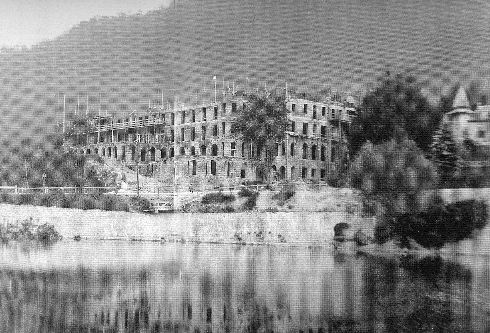 The Palace Hotel building in 1928, Lillafüred, Hungary